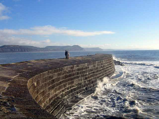 The Cobb as a film set The ancient Cobb at Lyme Regis featured in the film 'The French Lieutenant's Woman'. This was a more recent shot during the filming of Jane Austen's 'Persuasion', shown on television in April 2007. To see some 360°Panoramas of Lyme Regis please visit this